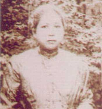 Raja Aisyah Sulaiman - 1870-1926